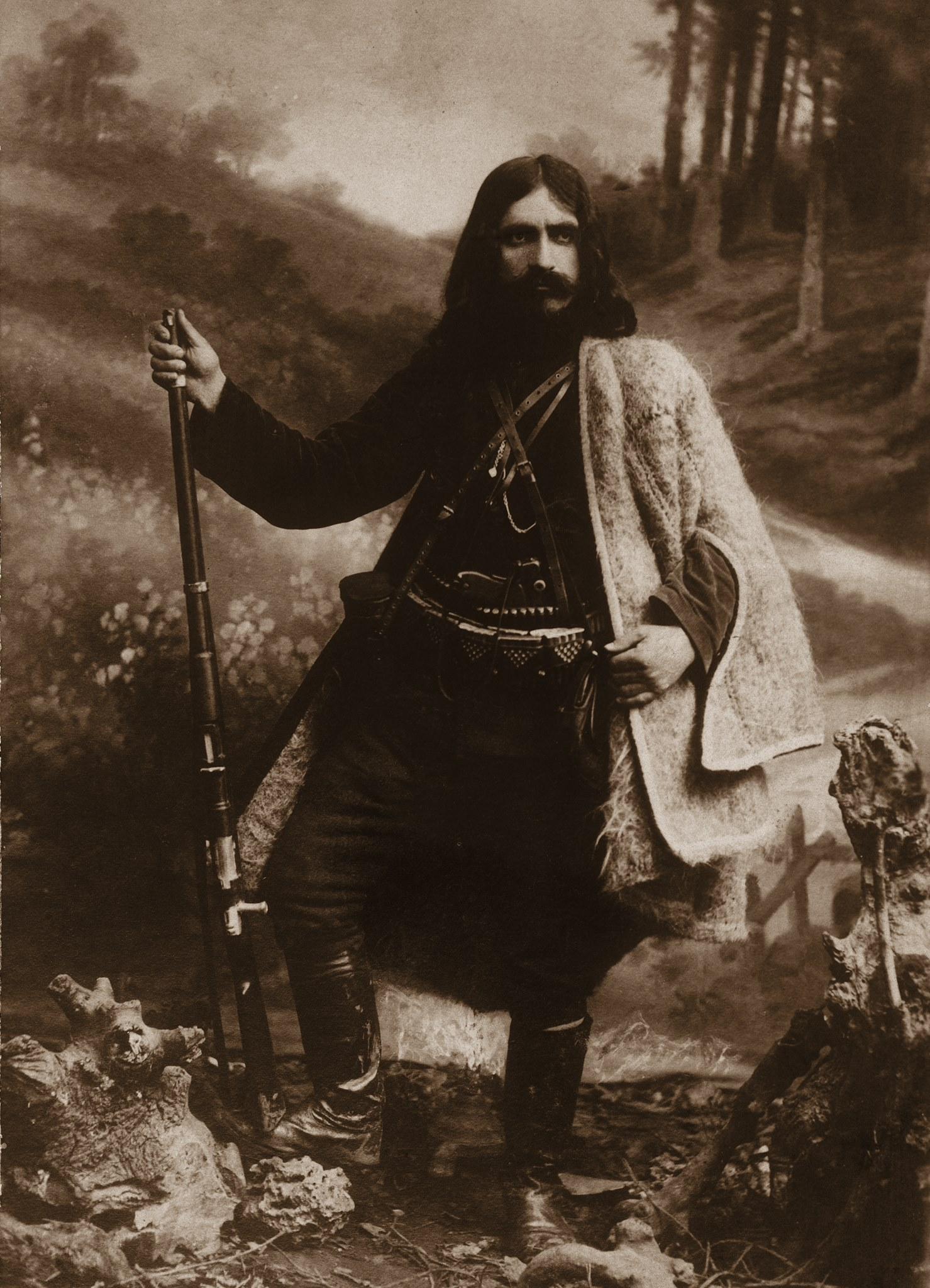 Portrait of IMARO voevoda from Lerin/Florina Pando Shishkov